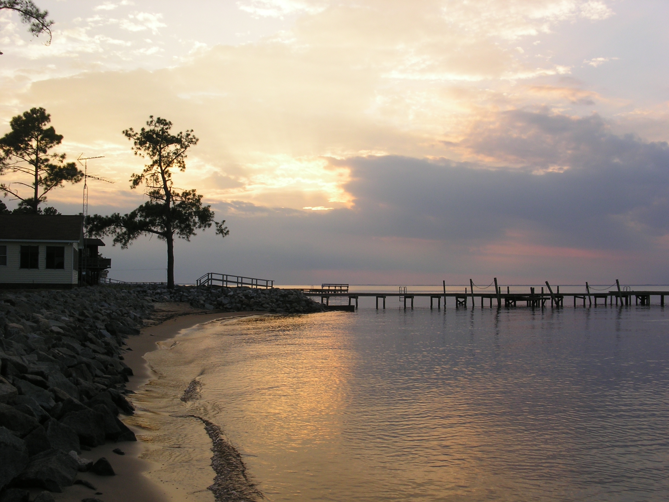 Columbia, NC / Albemarle Sound